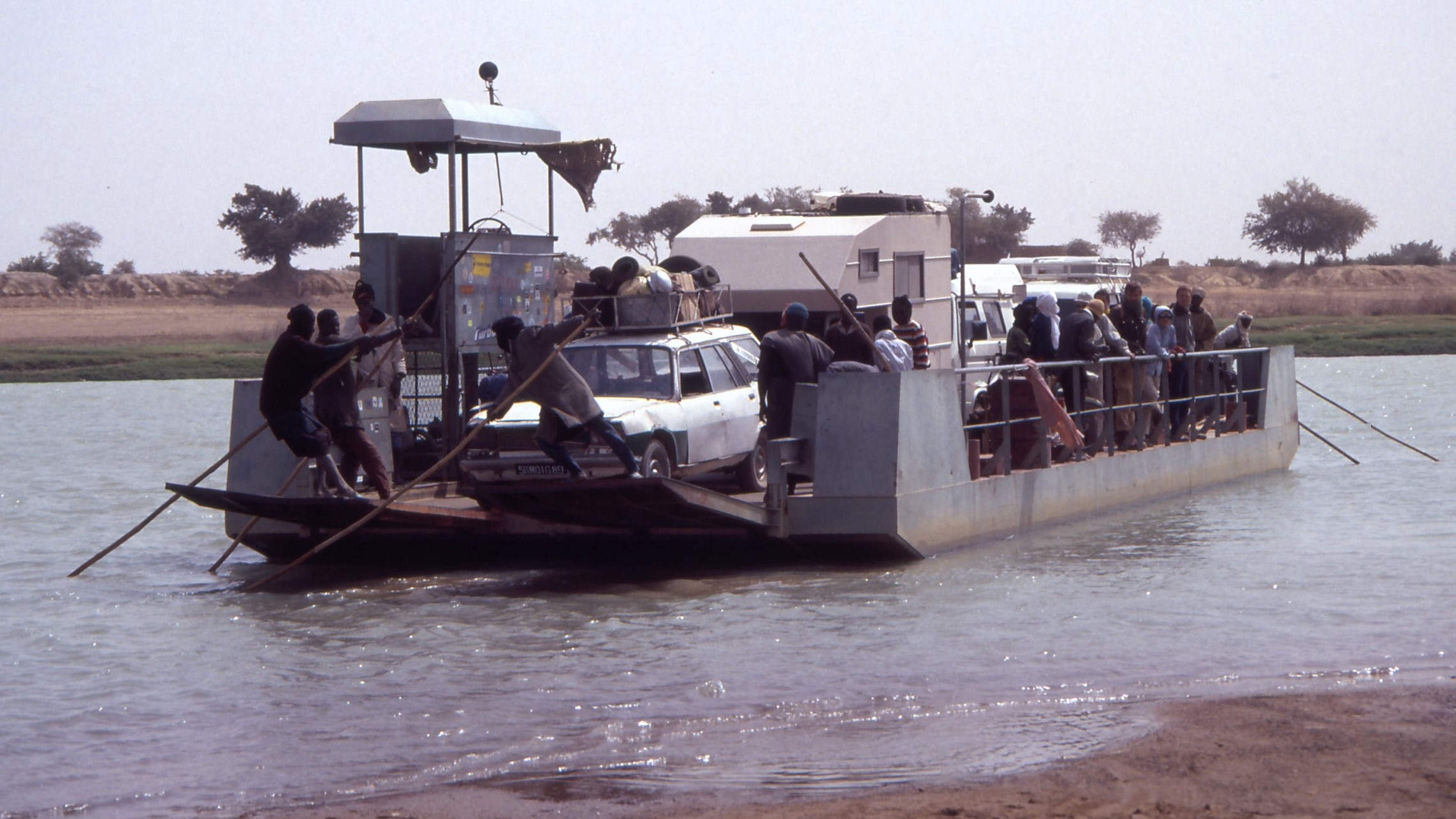 Ferry at river Niger, near Mopti, Mali